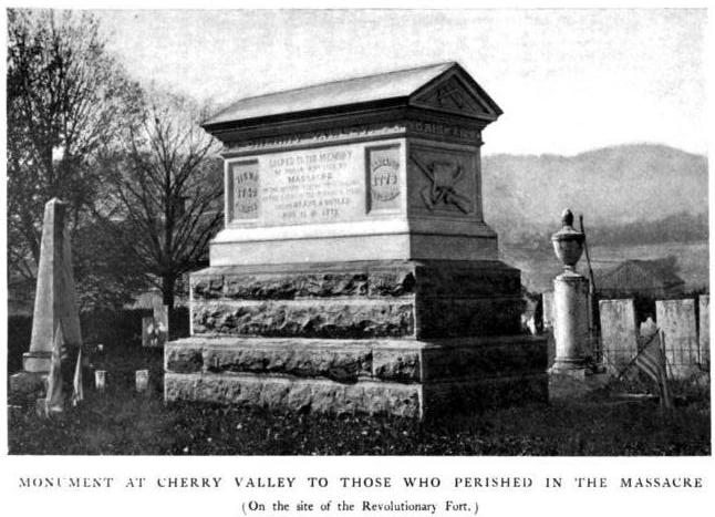 Monument at Cherry Valley to those who perished in the Cherry Valley massacre - picture from the book by Francis Whiting Halsey: The Old New York Frontier, Charles Scribner’s Sons, New York (1901). The monument was dedicated on August 15, 1878 at the centennial anniversary of the massacre. Former New York Governor Horatio Seymour delivered a dedication address in Cherry Valley at the monument to an audience of about 10,000 persons. Quoting from the newspaper article, “The Cherry Valley Massacre, Unveiling of the Monument to Those Who Fell on Nov. 11, 1778”, The New York Times newspaper, New York, New York (August 16, 1878): “I am here today,” said the speaker, “not only to show reverence for those dead patriots, but to offer my respects and heartfelt gratitude to the living descendants of those illustrious persons of the early settlements, who have erected this memorial stone. It is to be hoped that their example will be copied; that the report of these commemorative exercises will move others to like acts of pious duty. Let every son of this soil uncover reverently as this monument is unveiled, and do reverence to their sturdy patriotism, made strong by their grand faith, their trials, and their sufferings, and show that the blood of innocent children, of wives, of sisters, of mothers, and of brave men, was not shed in vain. Let us show the world that 100 years have added to the value of that noble sacrifice. Thus we shall leave this sacred spot better men and women, with a higher and nobler purpose of life than that which animated us when we entered this domain of the dead.” ColWilliam (talk) 01:19, 20 April 2008 (UTC)